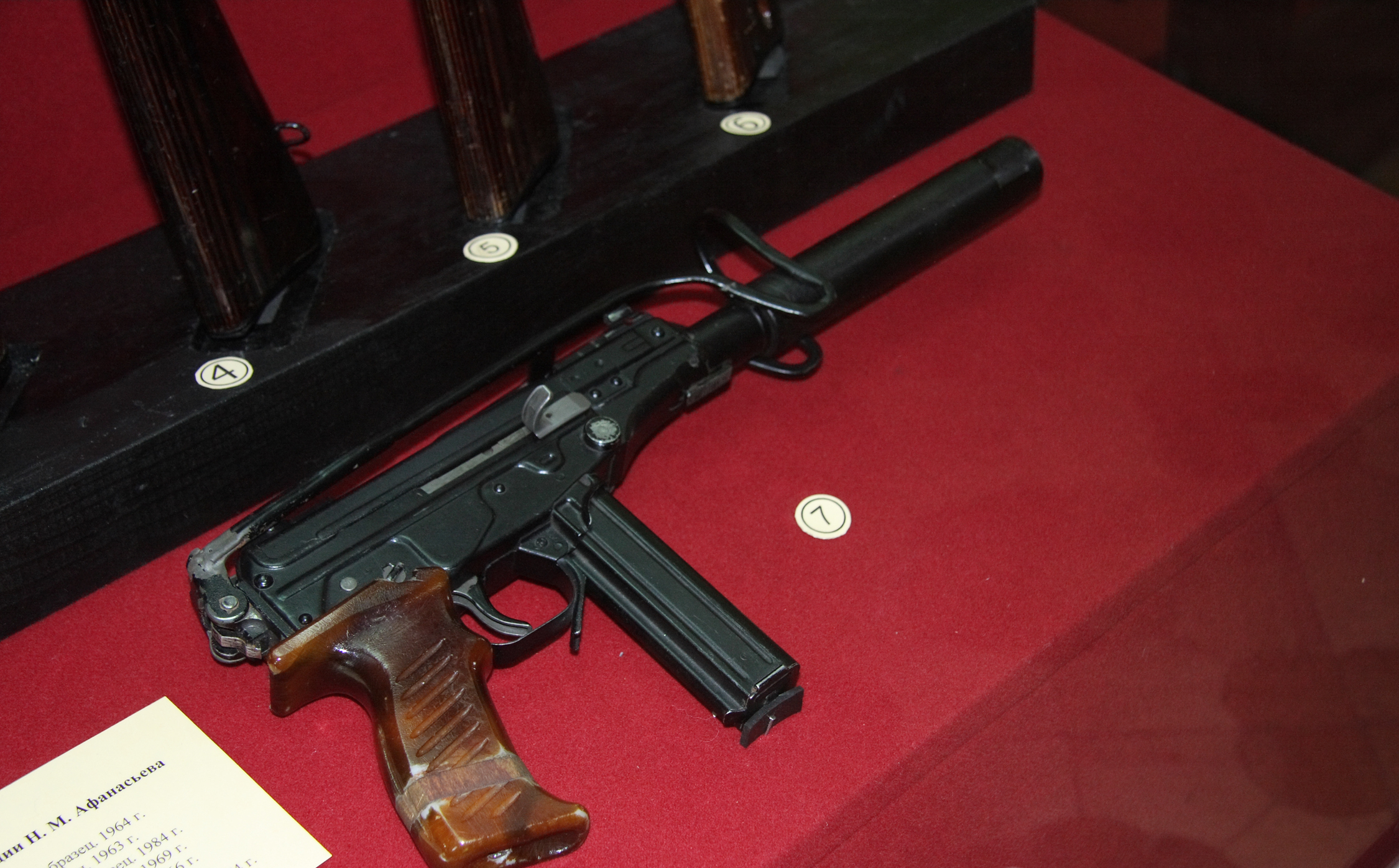 9-mm experimental SMG TKB-0104 (TKB-104) by N. Afanasyev, 1974